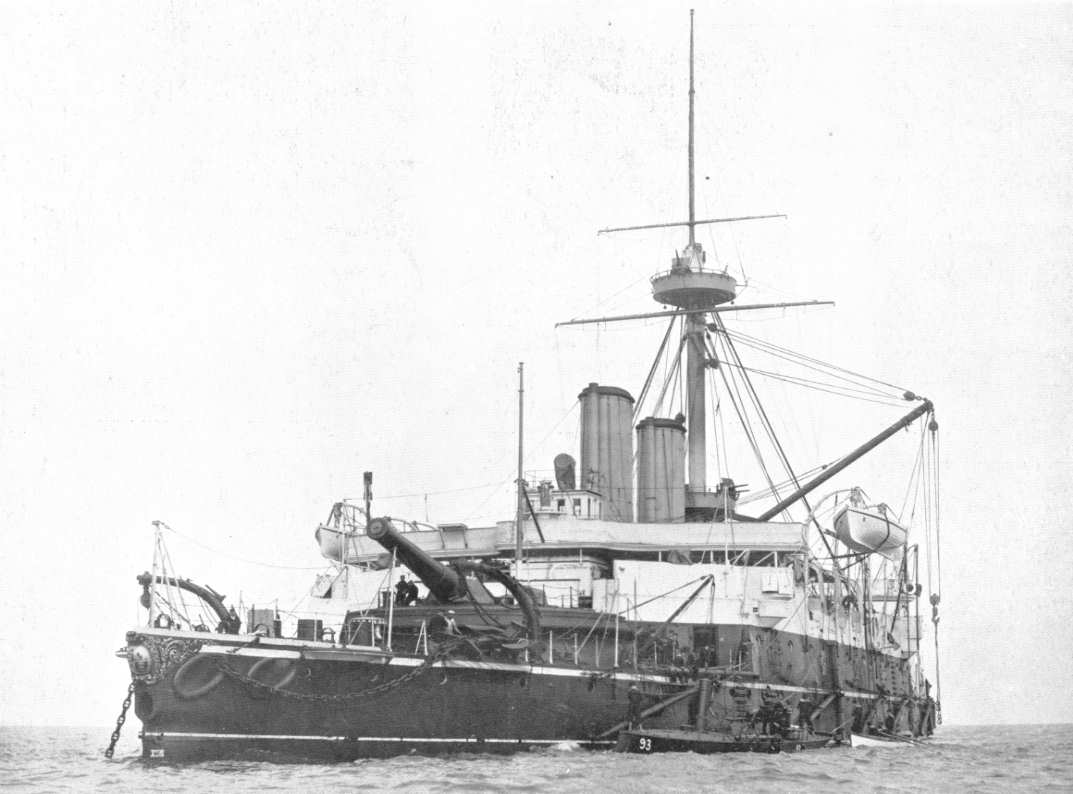 Photograph of British battleship HMS Benbow.